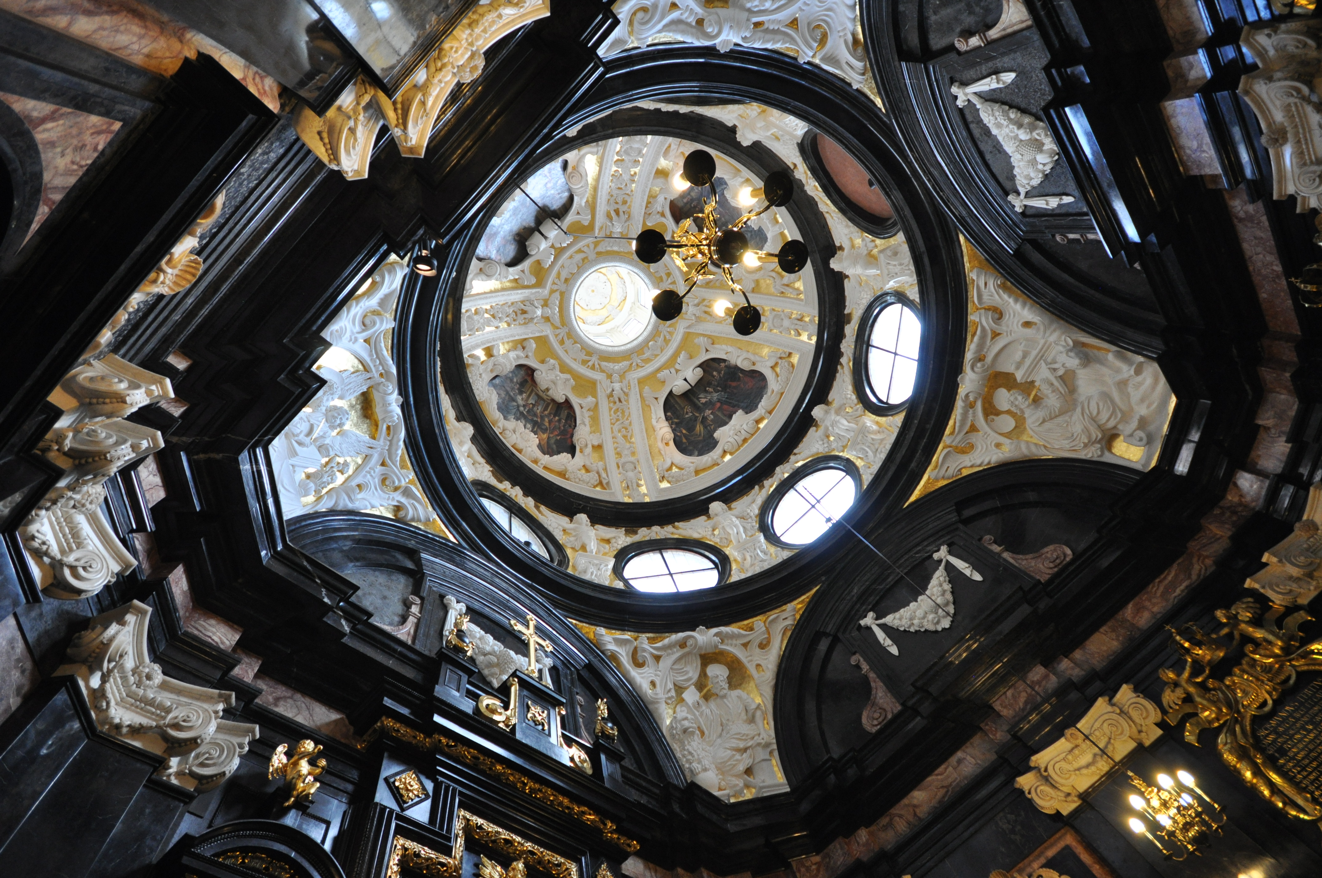 The Royal Archcathedral Basilica of Saints Stanislaus and Wenceslaus on the Wawel Hill (Polish: królewska bazylika archikatedralna śś. Stanisława i Wacława na Wawelu), also known as the Wawel Cathedral (Polish: katedra wawelska), is a Roman Catholic church located on Wawel Hill in Kraków, Poland. More than 900 years old, it is the Polish national sanctuary and traditionally has served as coronation site of the Polish monarchs as well as the Cathedral of the Archdiocese of Kraków. Pope John Paul II offered his first Mass as a priest in the Crypt of the Cathedral on 2 November 1946. The current, Gothic cathedral, is the third edifice on this site: the first was constructed and destroyed in the 11th century; the second one, constructed in the 12th century, was destroyed by a fire in 1305. The construction of the current one begun in the 14th century on the orders of bishop Nanker